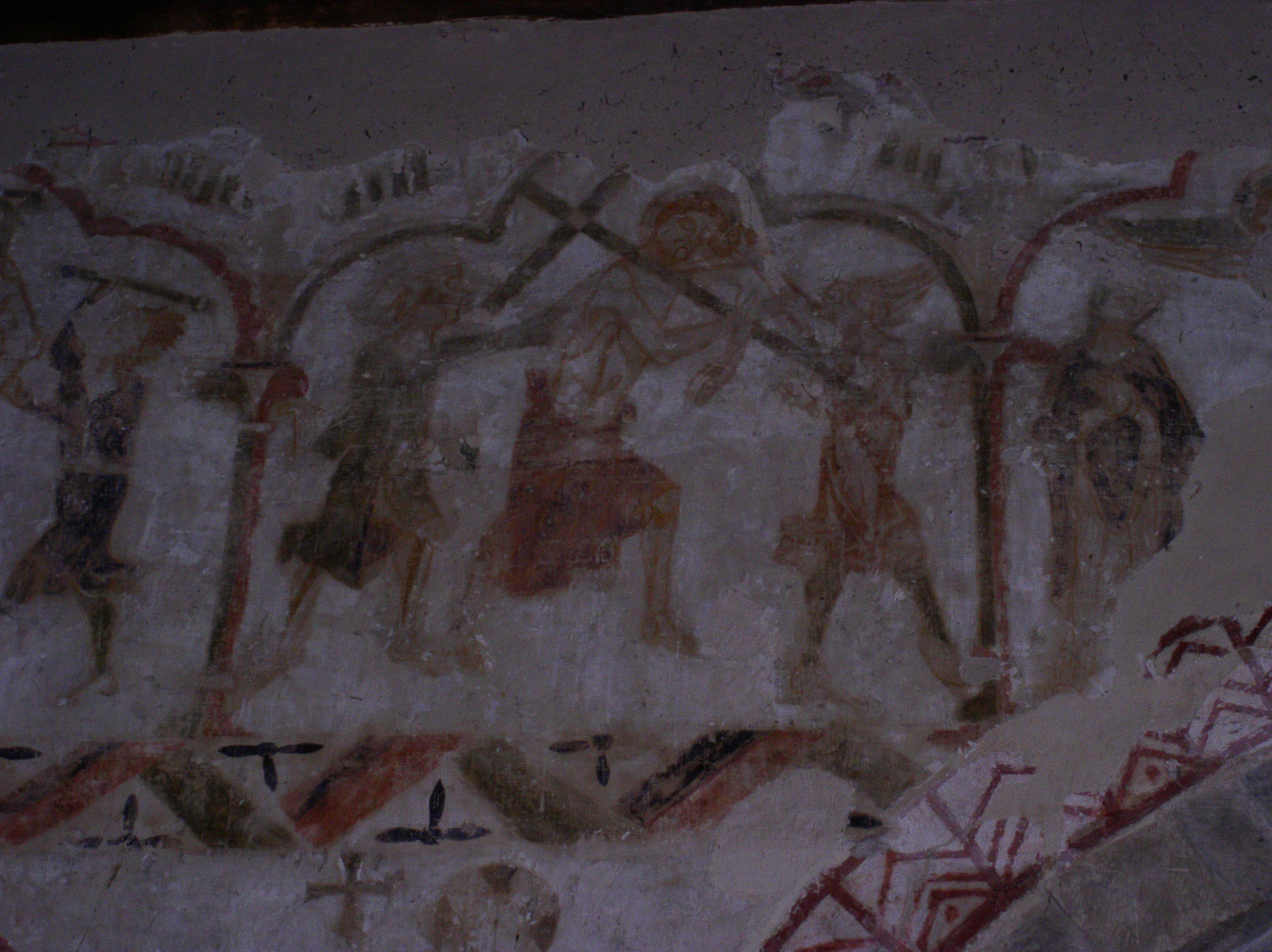 Wall painting of ChurchChrist carrying the cross in St Mary's Church, West Chiltington, West Sussex, England